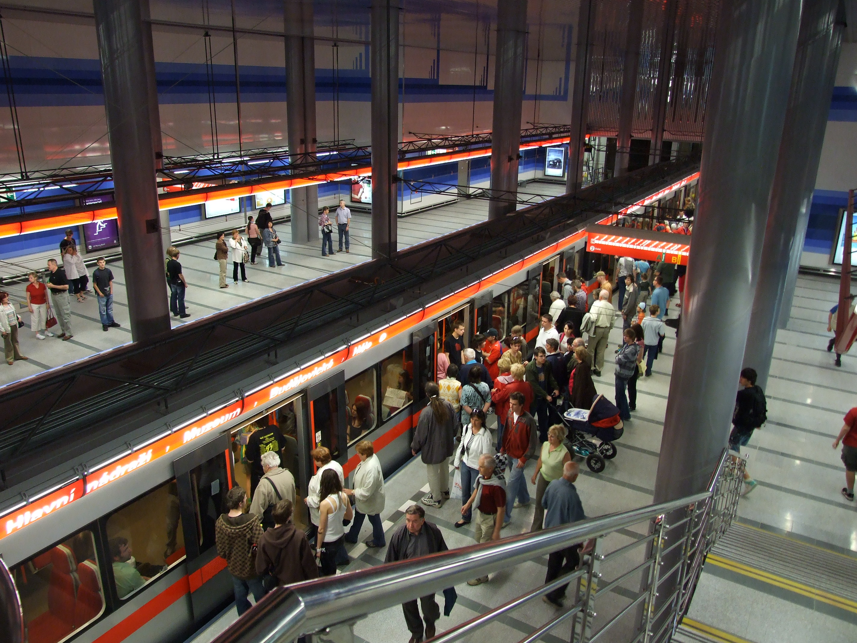 Prosek metro station in Prague, several hours after opening for publichelp